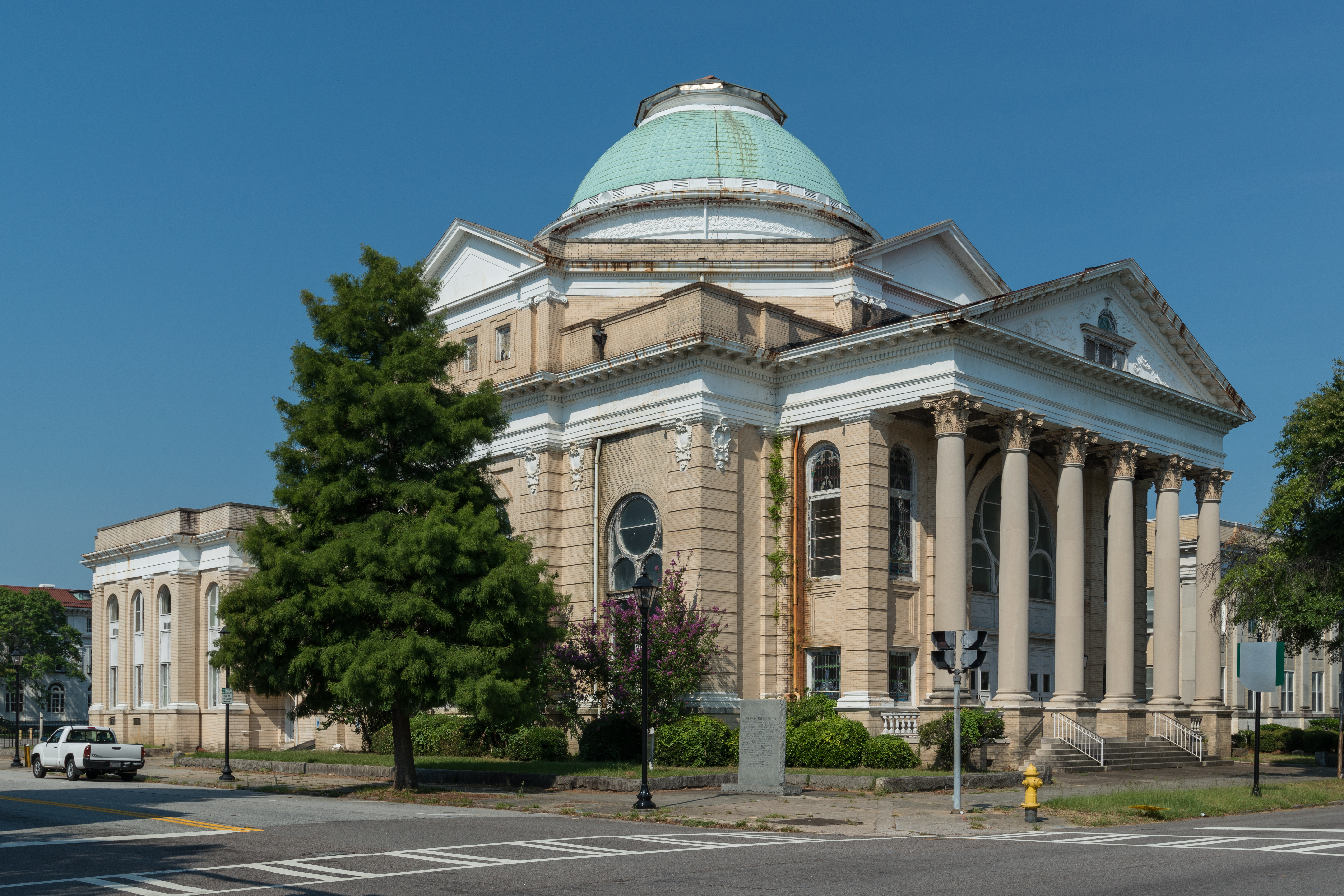 An east view of First Baptist Church, Augusta, Georgia